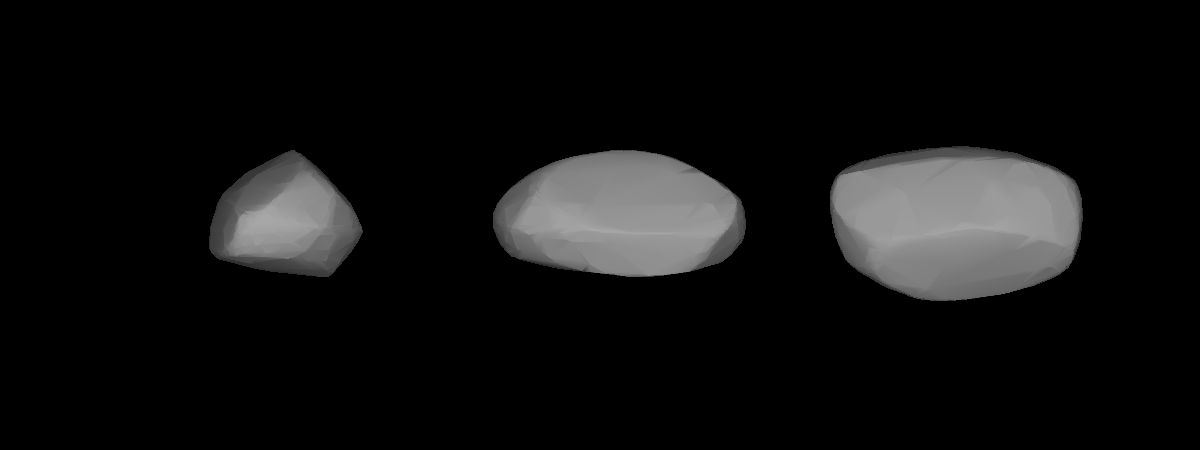 A three-dimensional model of 1927 Suvanto that was computed using light curve inversion techniques.